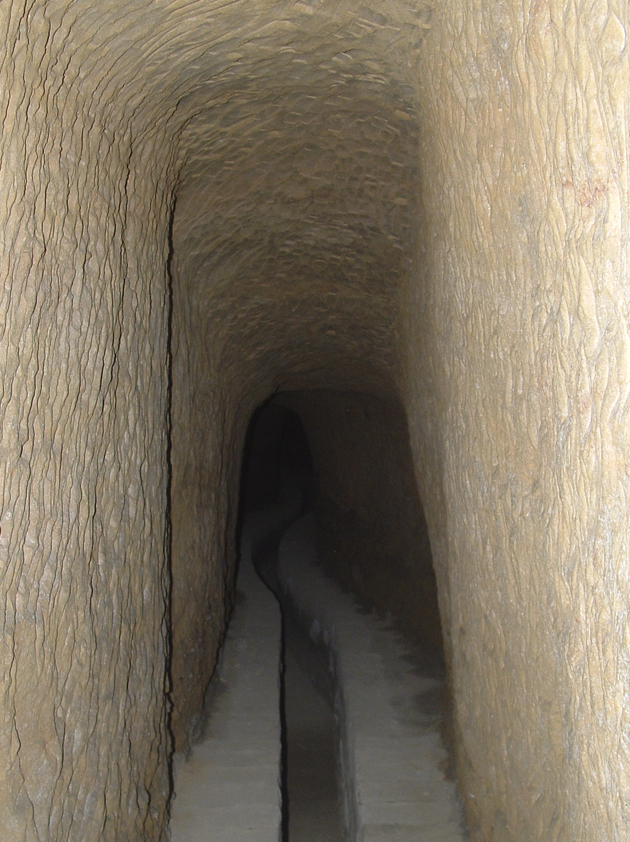 excavated channel Bottino di Fonte Gaia, part of the Bottini di Siena, Siena, Tuscany, Italy